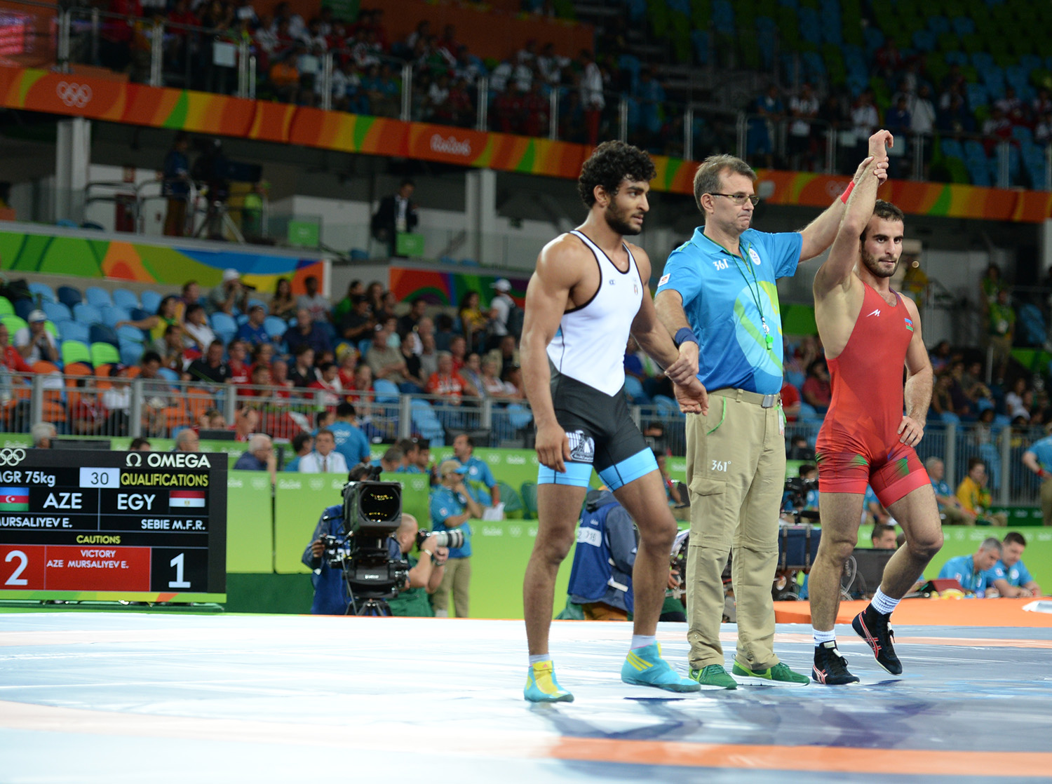 Wrestling at the 2016 Summer Olympics, Mursaliyev vs Fawzy